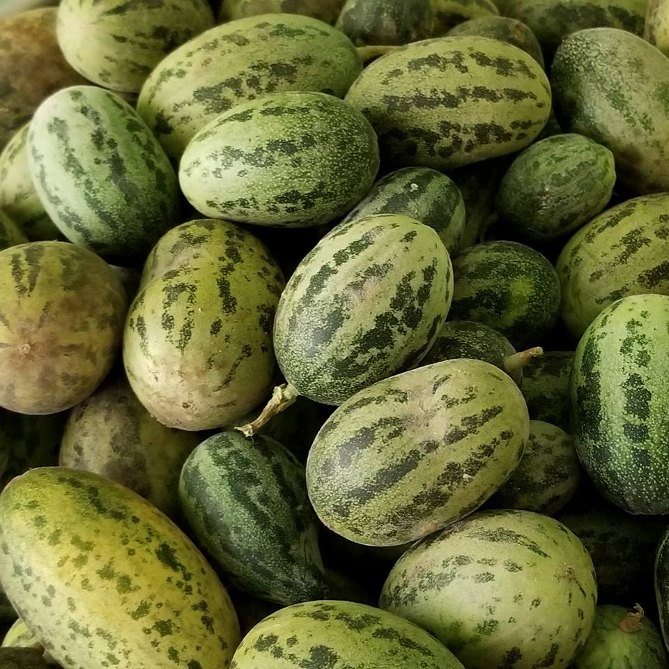 Picture of Cucumis Melo Agrestis plant (fruit), from Tamilnadu, India, 2018-01-02